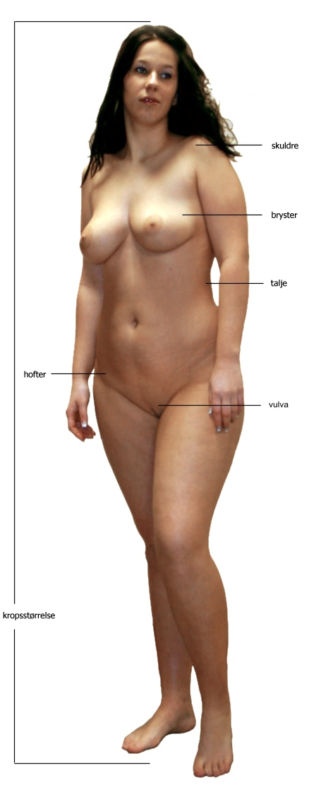 young woman with labels of her sexual characteristics